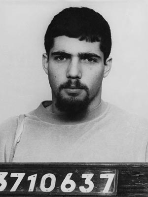 Depicted person: Yair Lapid – Israeli politician, journalist, author, TV presenter and news anchor